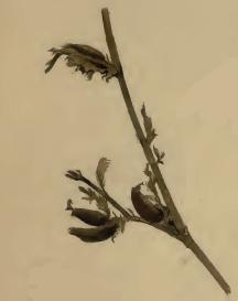 Stainton’s Natural History of the Tineina (1855–1873): Augasma aeratella a sprig of Polygonim aviculare with pod-like galls caused by larva